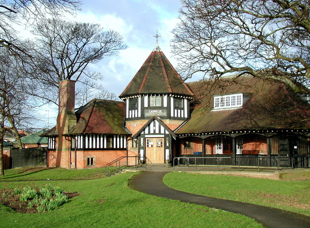 Carnegie Public Library Former public library at the entrance to West Park on Anlaby Road, Hull. Built in 1904-1905 to designs by city architect JH Hirst, it was one of 660 library buildings in Britain and Ireland to be built with the financial backing of Andrew Carnegie, a Scottish industrialist. The Carnegie Library opened on Tuesday 18th April 1905 and closed in 2003 to be replaced by a new learning centre at the nearby KC Stadium. The Grade II listed building reopened as the Carnegie Heritage Centre on 1st January 2008 with the words 'public library' blacked out, and is now home to the East Yorkshire Family History Society.